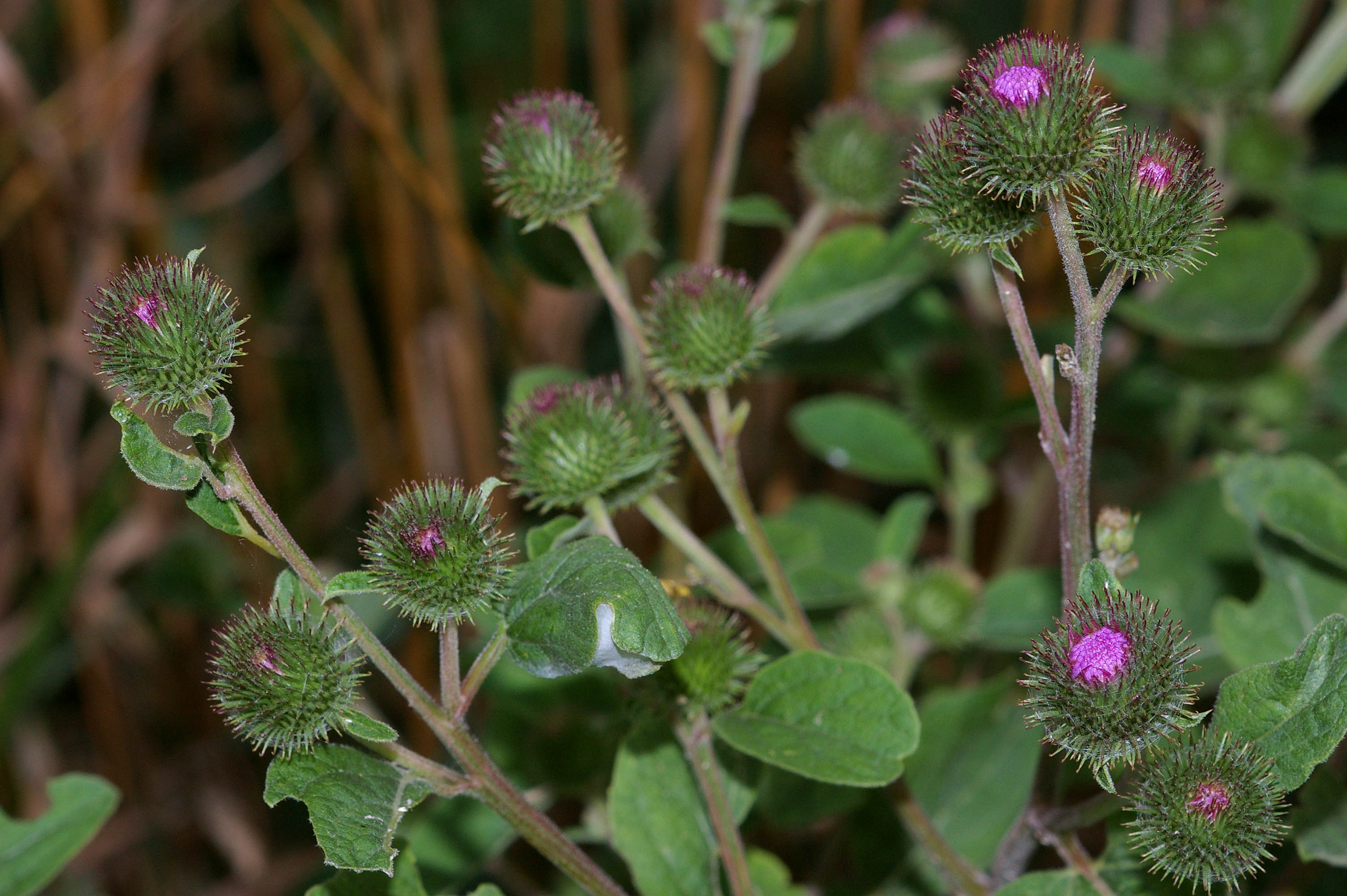 Smaller Burdock, Arctium minus (Asteraceae).